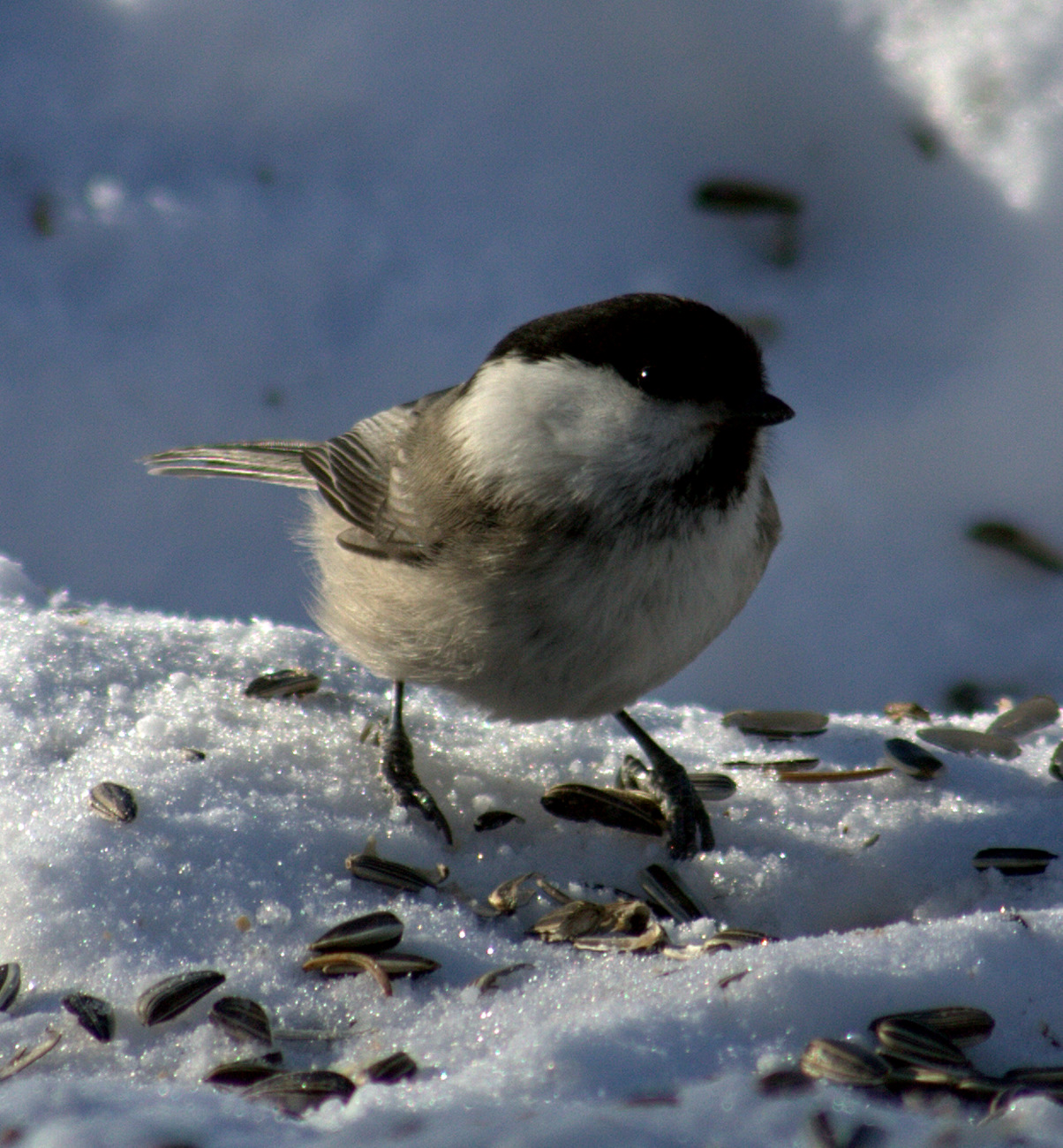 Willow tit (Poecile montanus) in Kittilä, Finland.